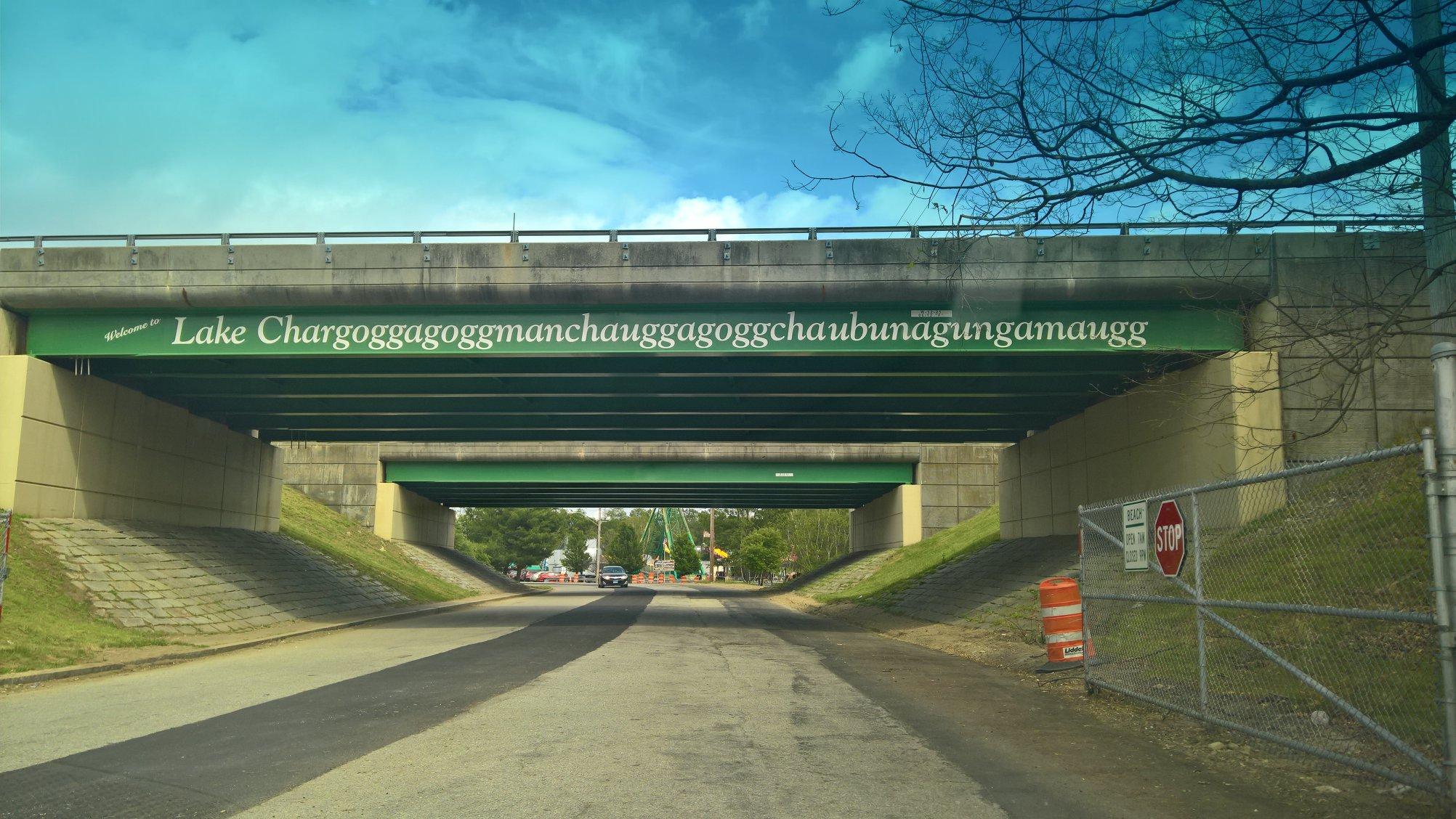 Chaubunagungamaug lake name banner on entering